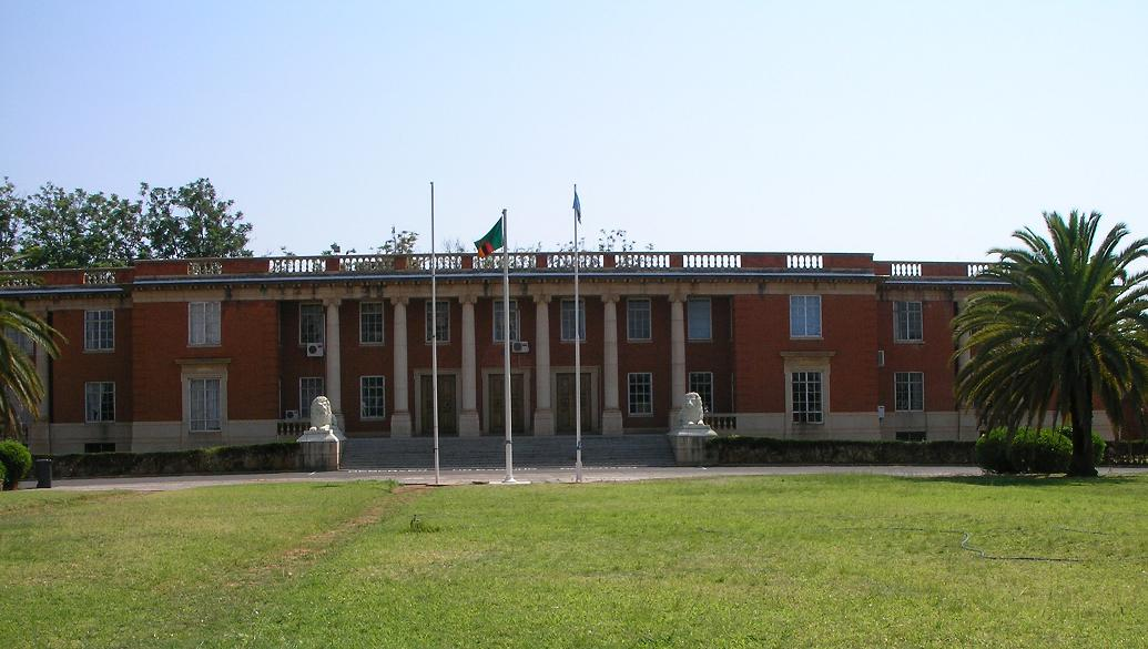 Zambia Supreme Court Building in Lusaka. Location by Garmin 60CSx handheld GPS; altimeter 1278 meters